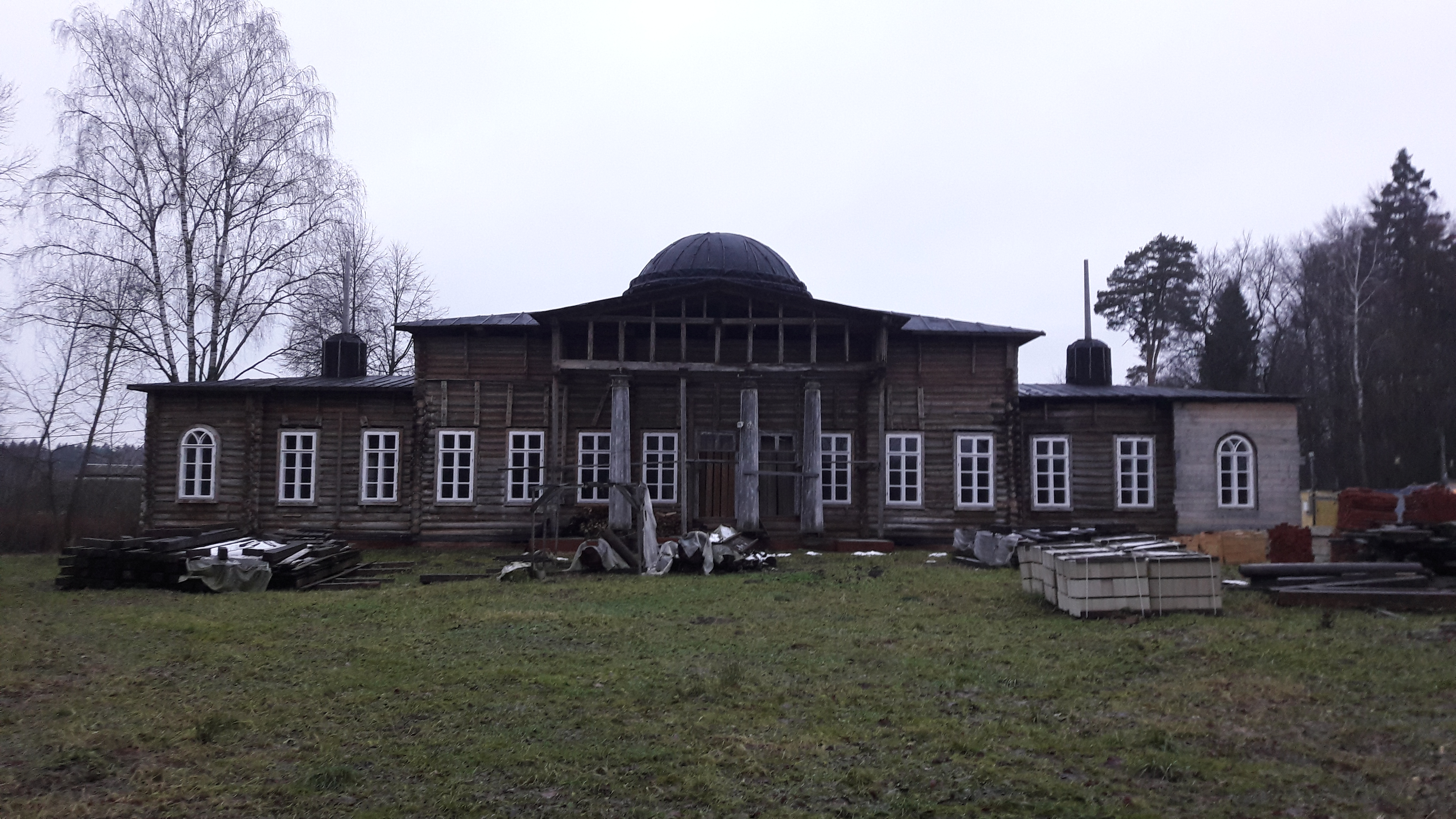 19th century estate of Vasino, Chekhov raion, Moscow oblast